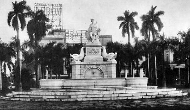 Fuente-de-la-India-vista-antigua. Havana, Cuba